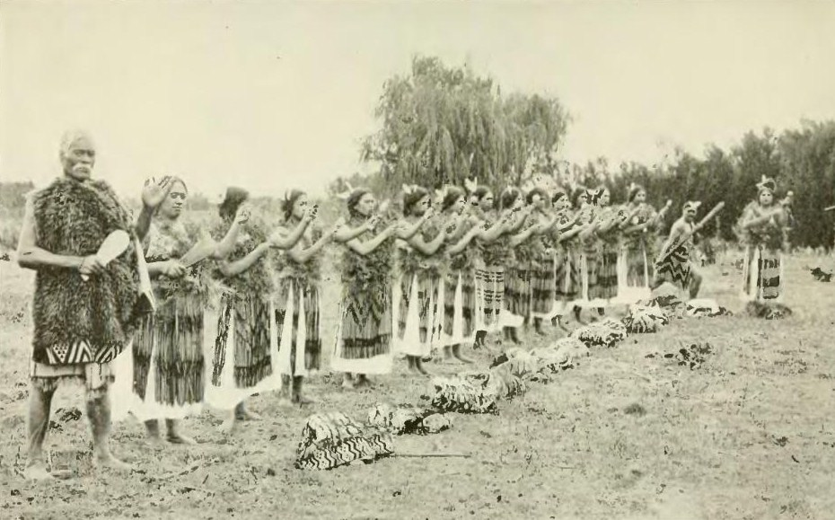 Māori group performing a poi dance. The man is wearing a kiwi feather cloak of traditional Māori type. He is holding a mere weapon. The women are wearing short jackets which appear similar to the traditional cloaks, but may be of European origin. Their piupiu skirts are traditional, made from harakeke (New Zealand flax, Phormium tenax) with dyed designs. They are wearing them over what appear to be European-type underskirts. Image from book scan at Wikisource